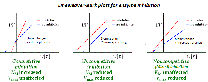 Double reciprocal plots for Competetive, uncompetitive, and noncompetitive (mixed) inhibitions.